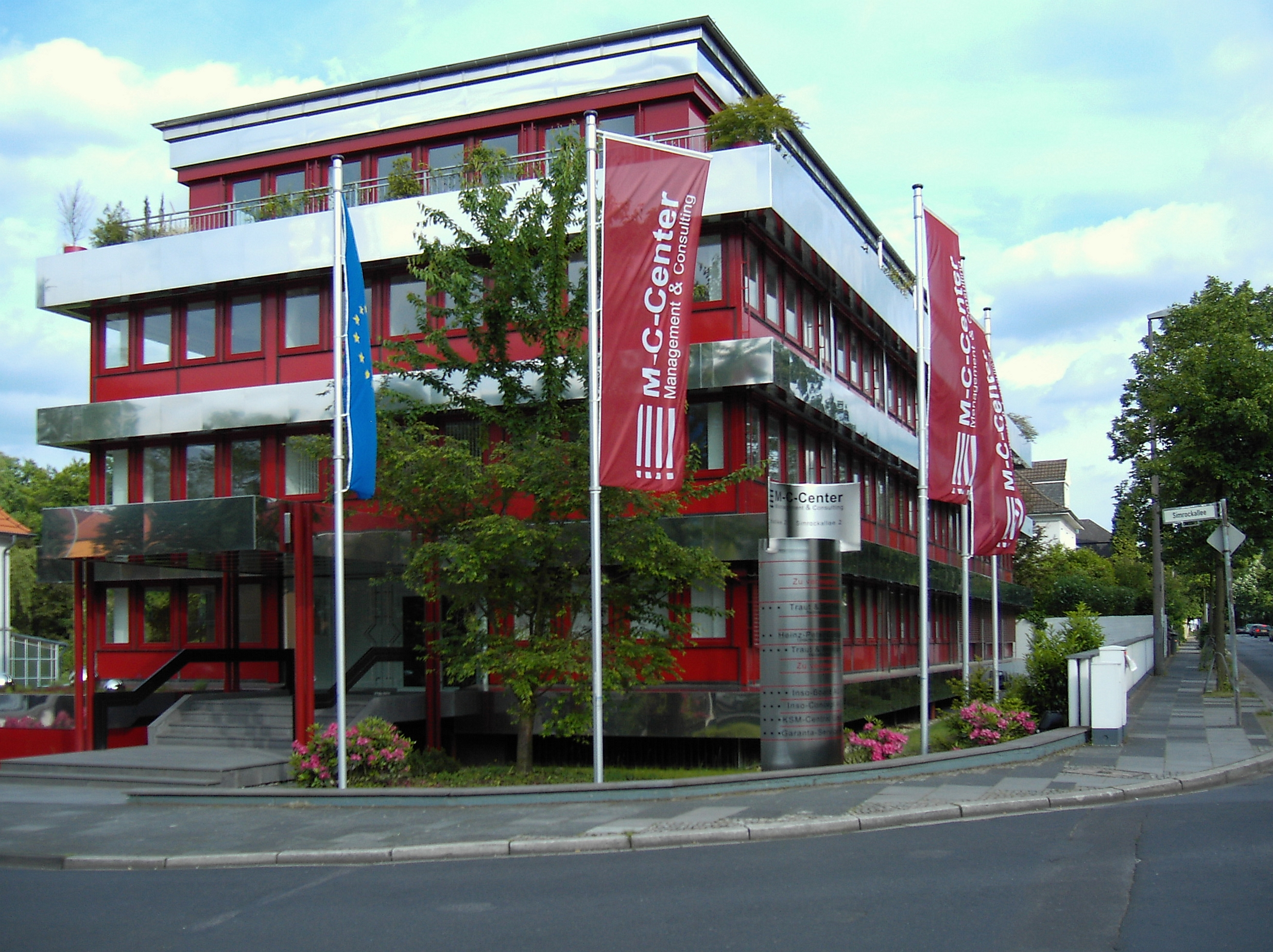 The former Israeli embassy in the Bonner city district Plittersdorf in the street Simrockallee.